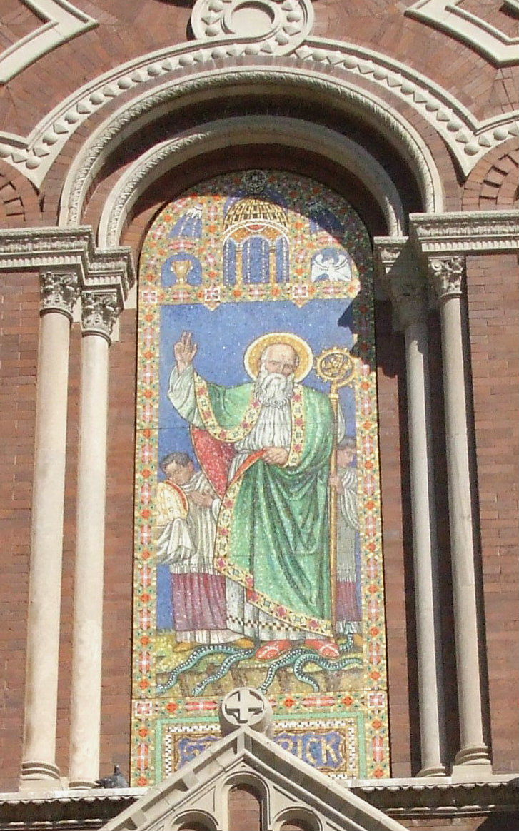 fresco: St Patrick casts out the snakes from Ireland.